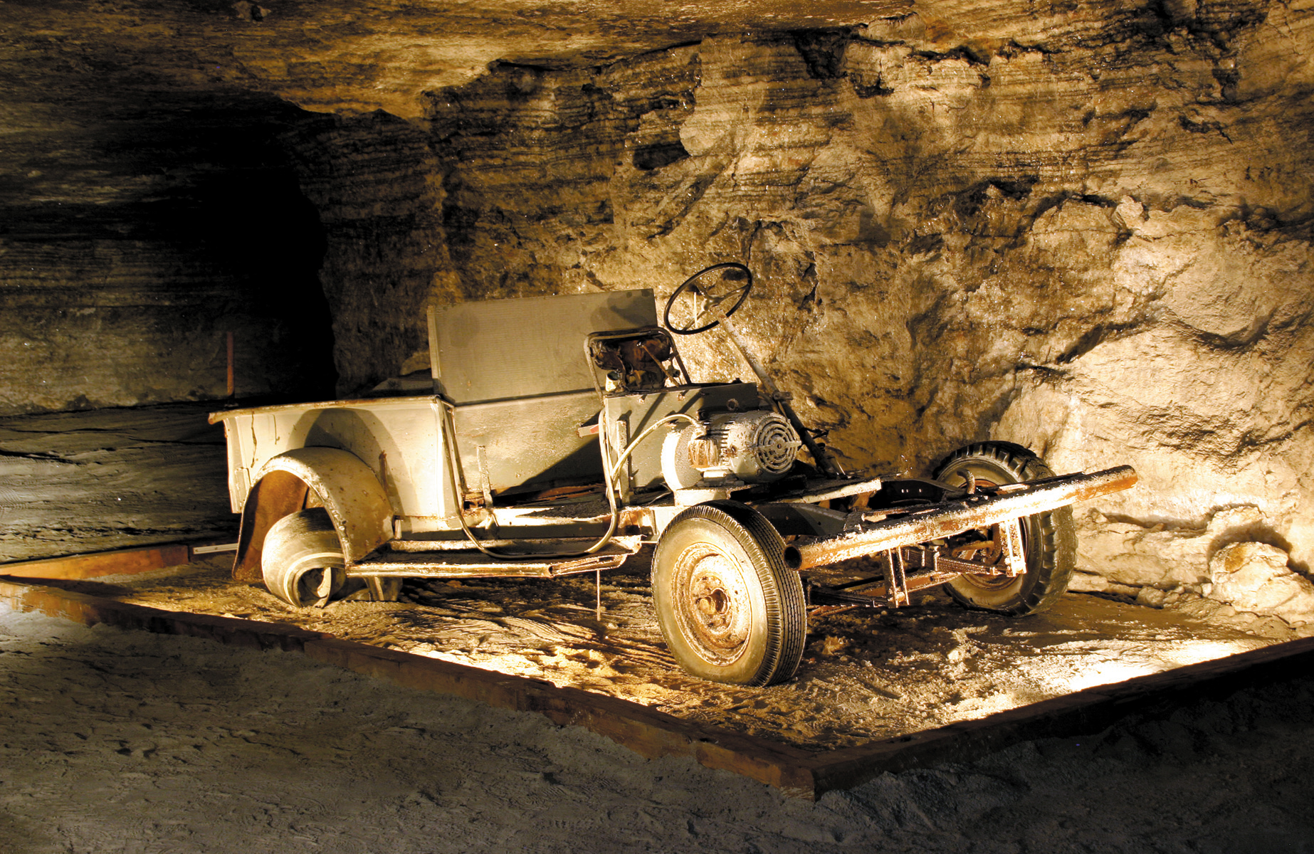 A vehicle used to transport miners to and from the mine face. CarHRE: An example of transportation equipment left in mine. Also an example of some of the first eco-friendly vehicles. License on Flickr (2010-12-30): CC-BY-2.0